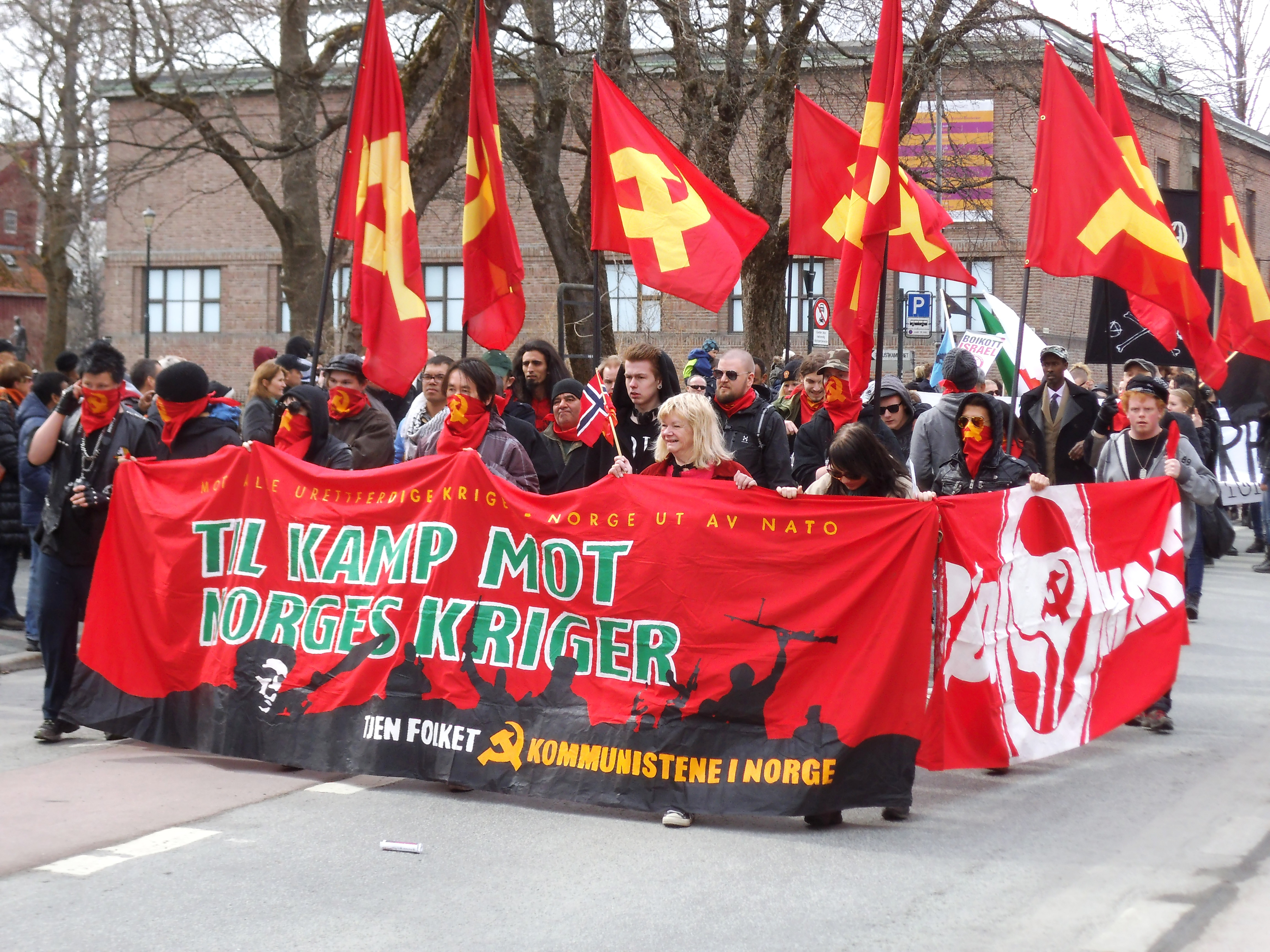 The political group Tjen Folket (transl: Serve the People) are participating in the International Workers' Day in Trondheim 2013.